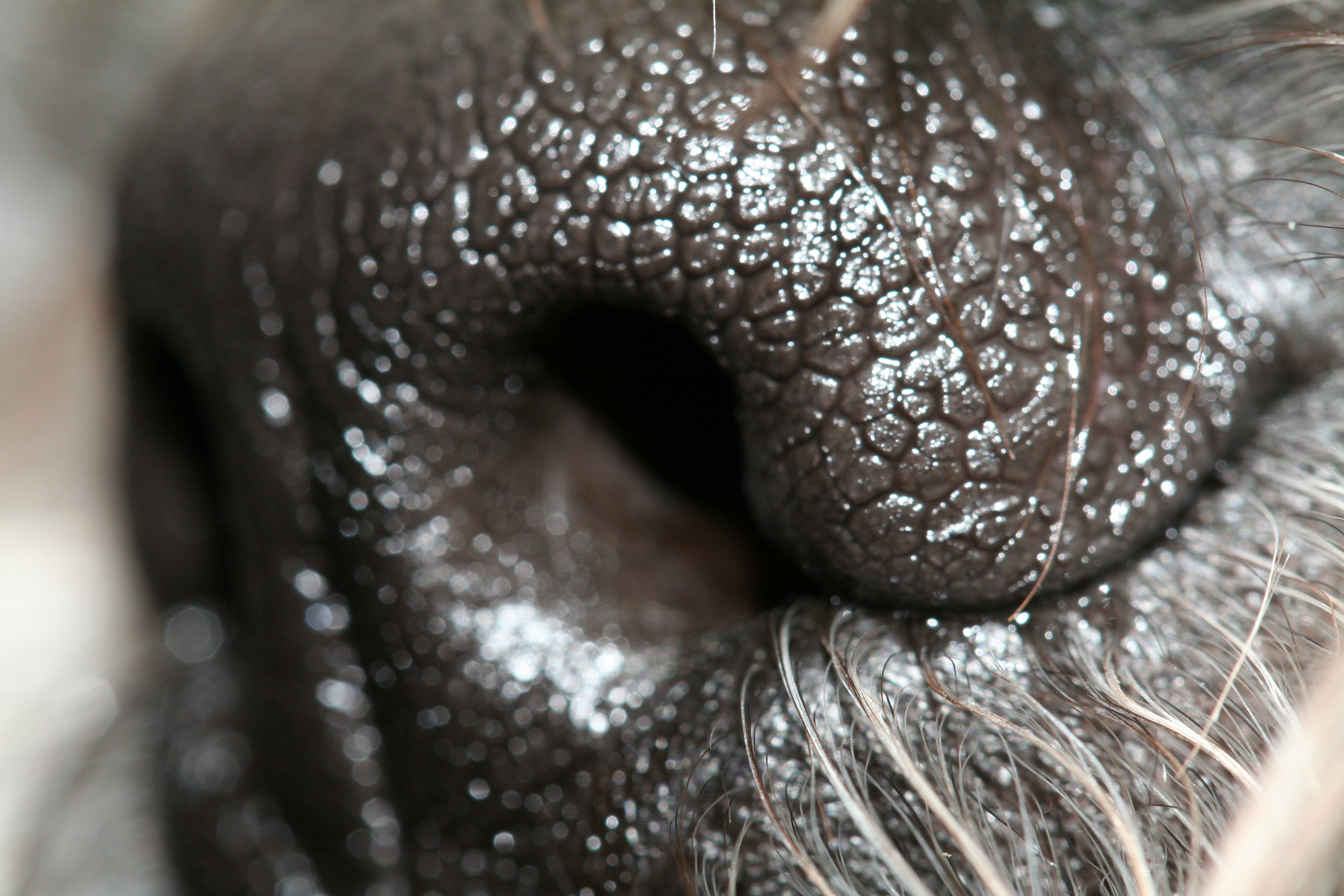 Macro close up of a dogs nose (specifically a Lhasa Apso)